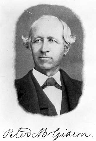 Portrait of Peter Gideon in the Minneapolis Historical Society Visual Resources Database. Location No. por 19936 p1 Negative No. 94665